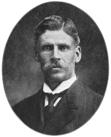 Portrait of Erick Lehi Olson from Utah Since Statehood: Historical and Biographical, Volume IV, 1920, page 605